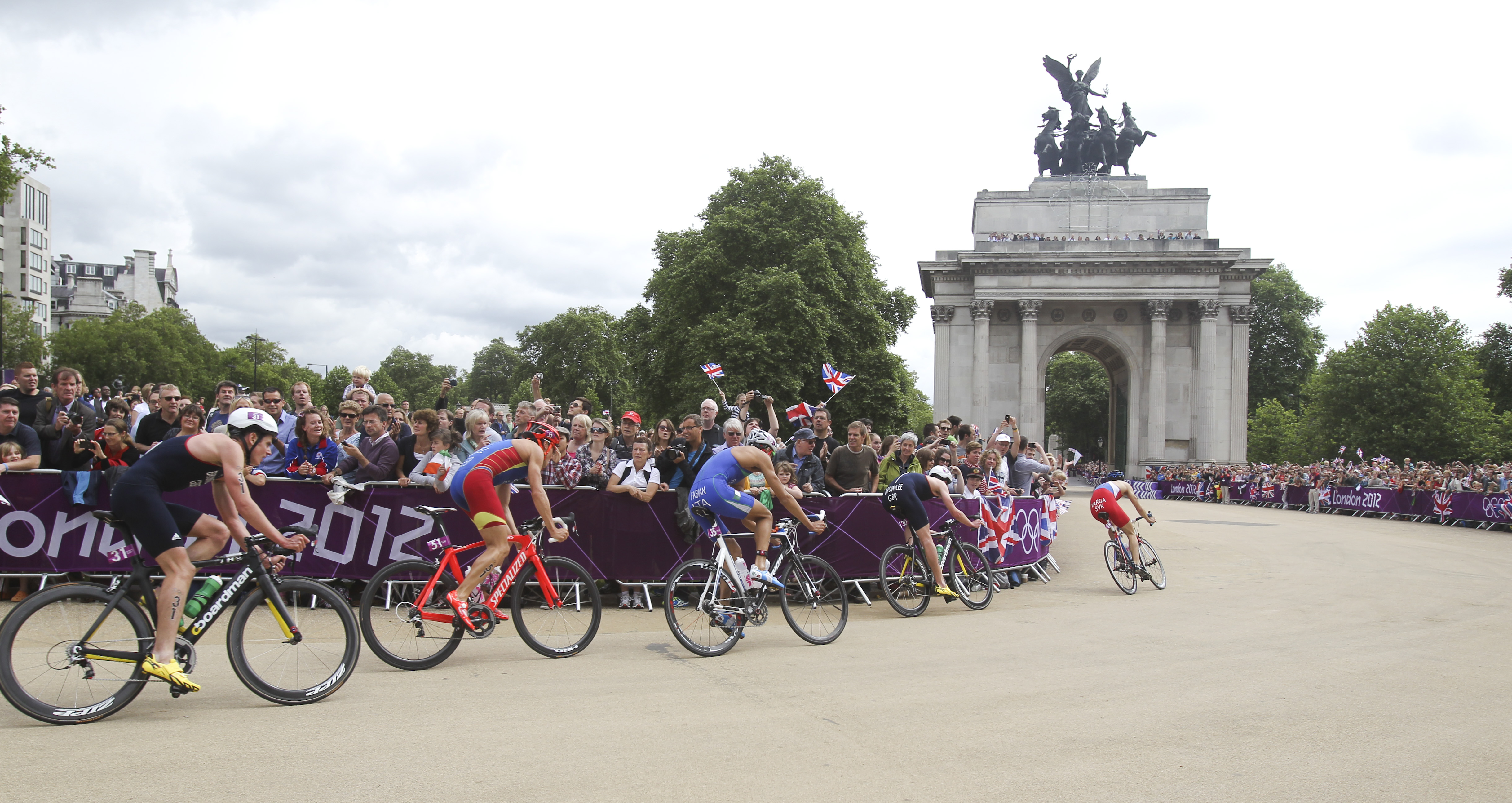 07.08.12 Action from the Triathlon Picture by David Poultney